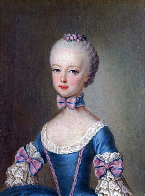 Portrait of Archduchess Maria Antonia of Austria at the age of seven years